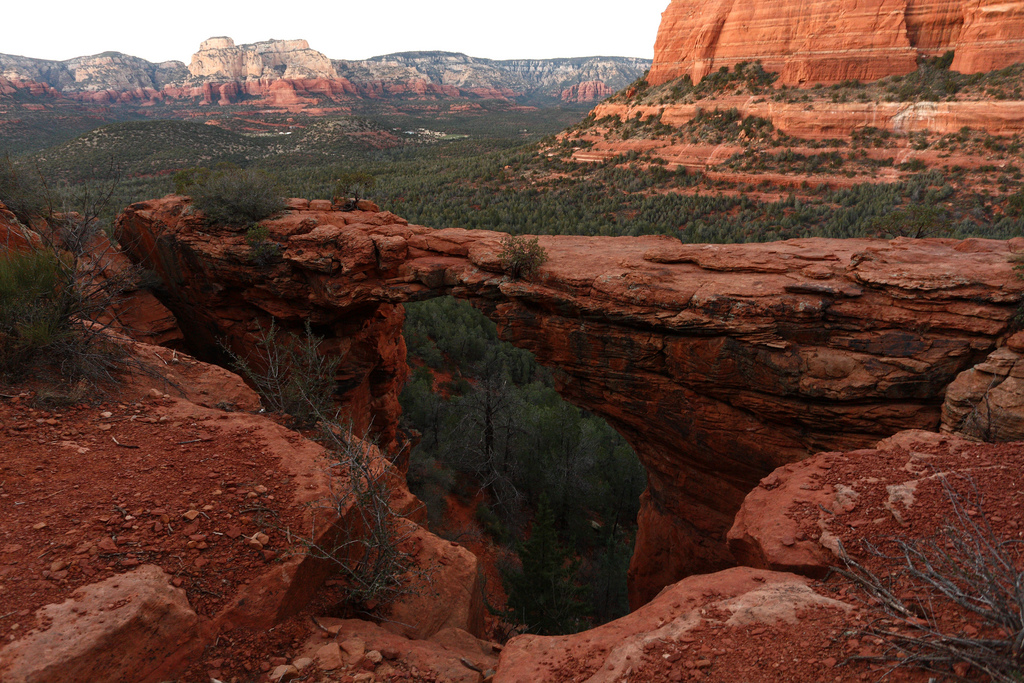 Natural arch rock formation known as Devil's Bridge, Sedona, Arizona